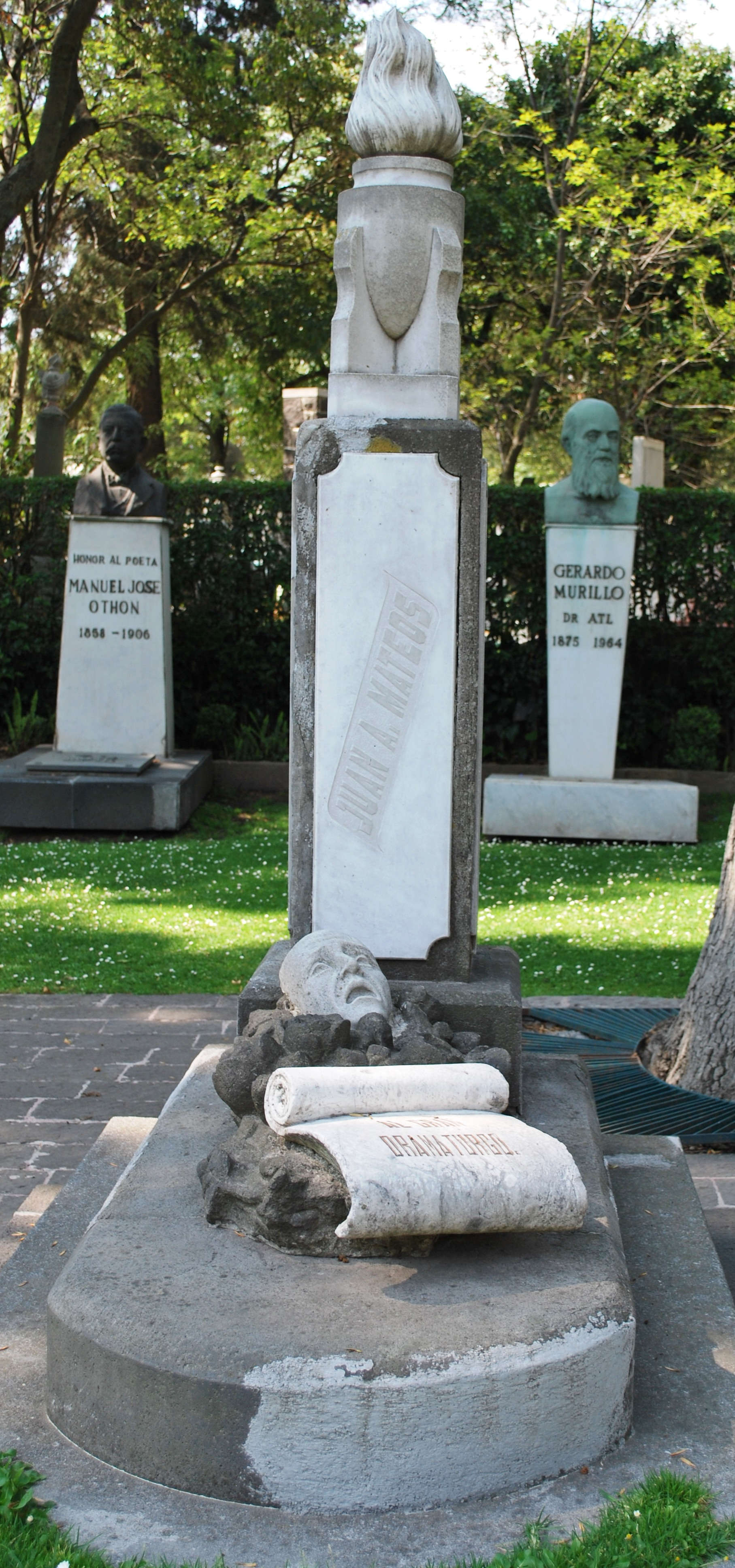 Tomb of Juan A Mateos in the Panteón Civil de Dolores Cemetery in Mexico City